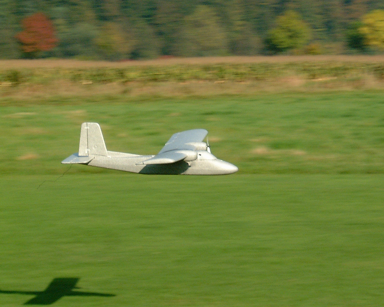 Model Airplane Multiplex Twin Star, Model Airfield Veckerhagen, Germany